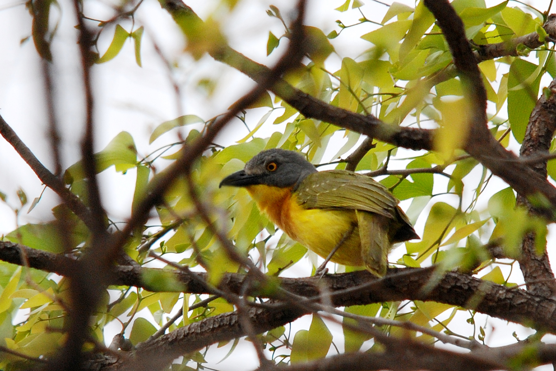 Grey-headed Bushshrike (Malaconotus blanchoti), Kruger National Park, south Africa.